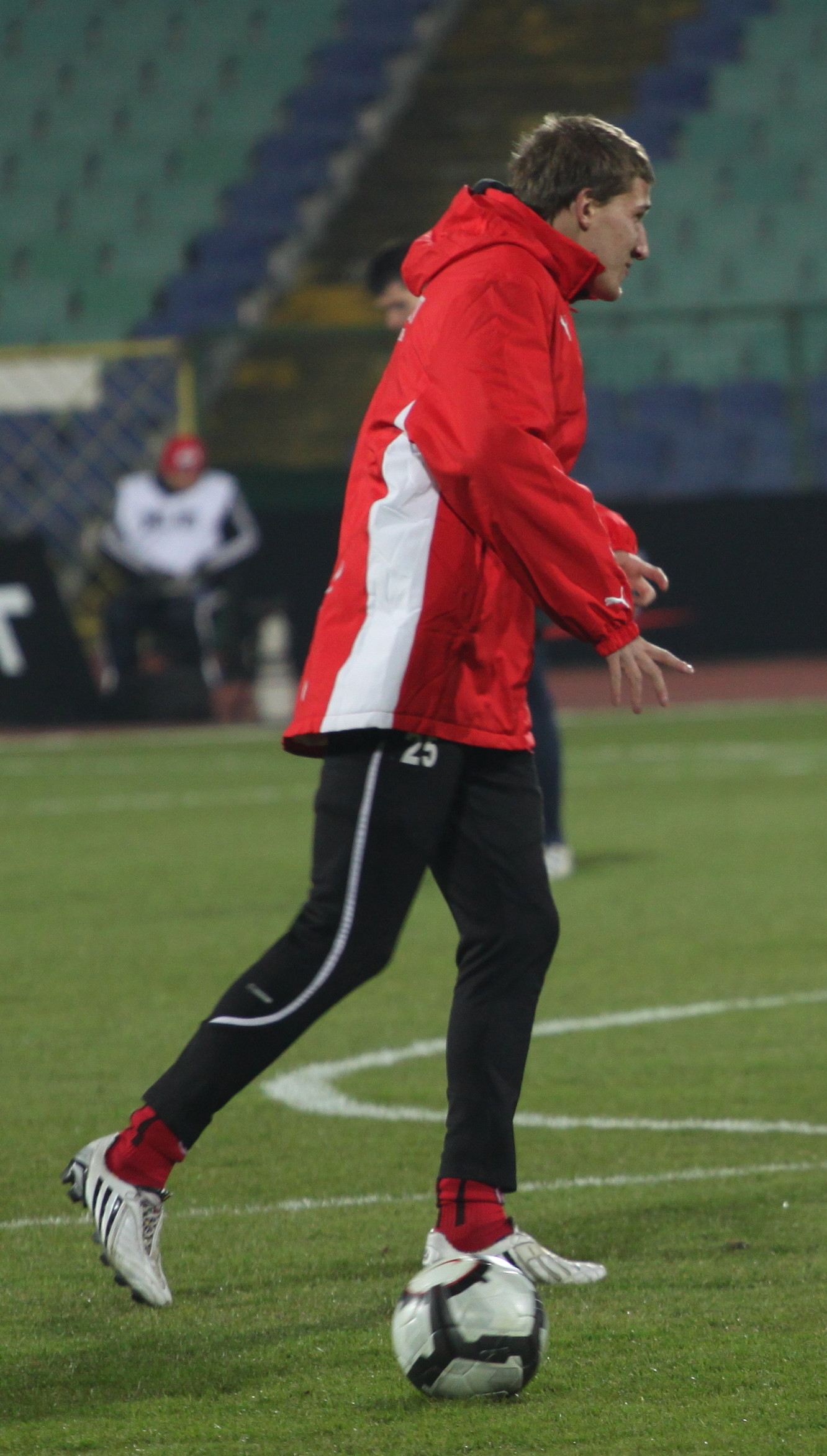 Preslav Yordanov (Bulgarian: Преслав Йорданов) (born 21 July 1989 in Pleven) is a Bulgarian footballer. He currently plays as a forward for PFC Lokomotiv Sofia.